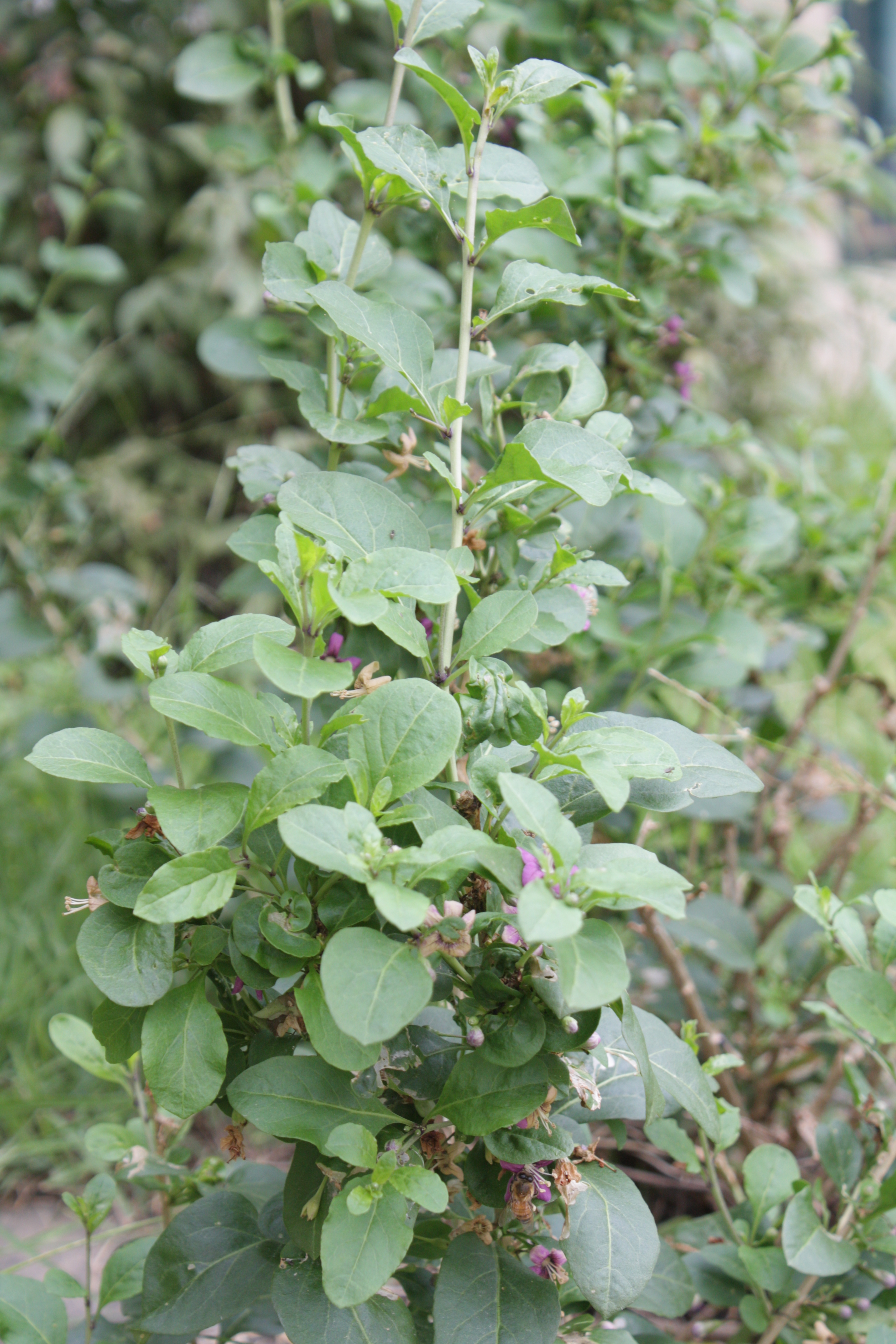 Lycium chinense